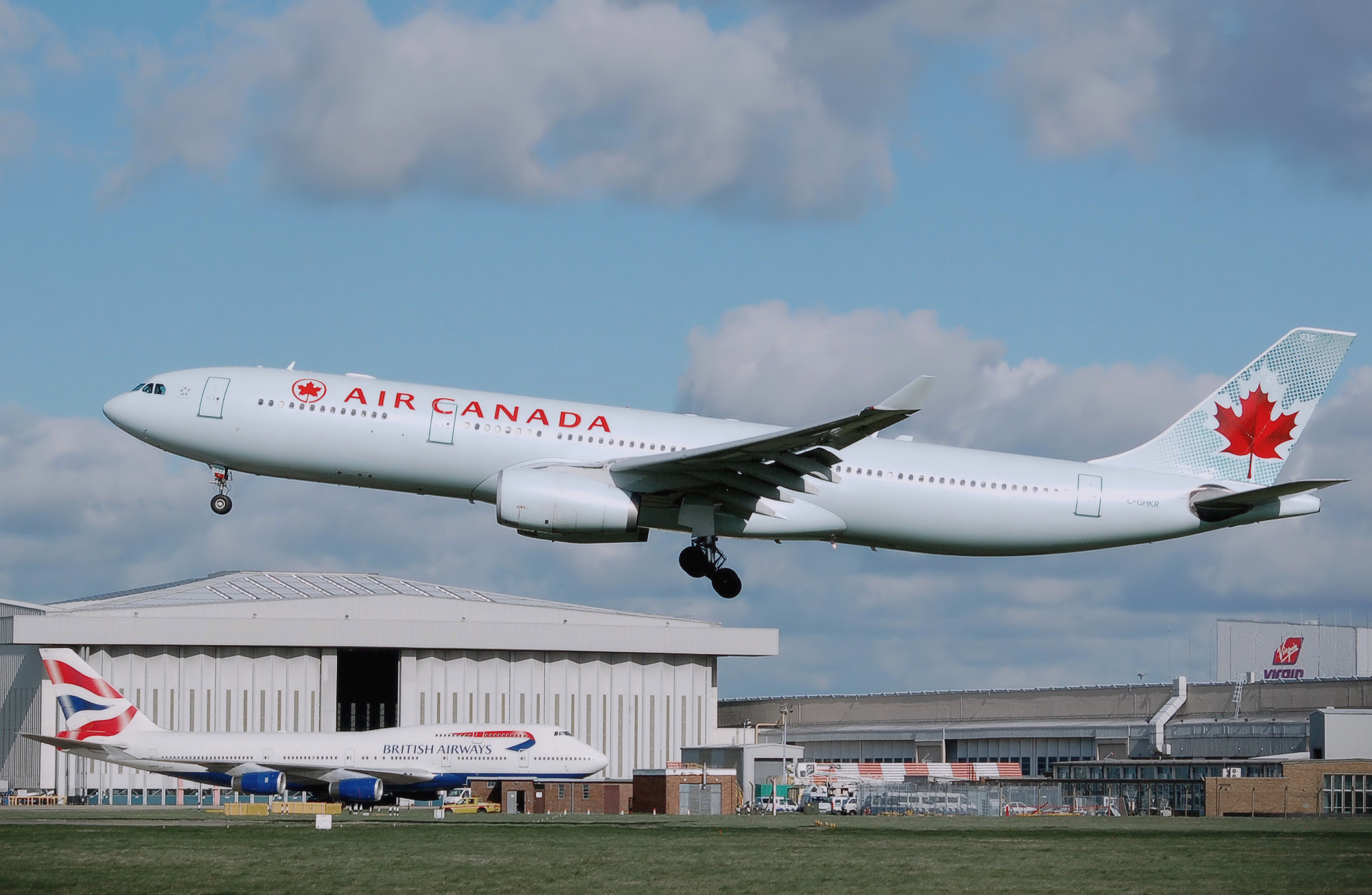 Air Canada Airbus A330-300 (registration C-GHKR) lands at London Heathrow Airport, England.